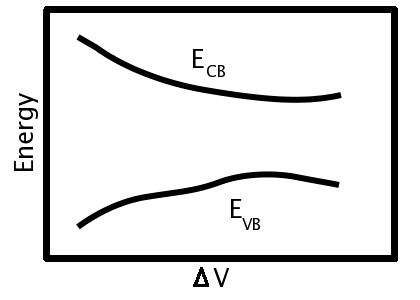 Energy dispersion delta with strain.